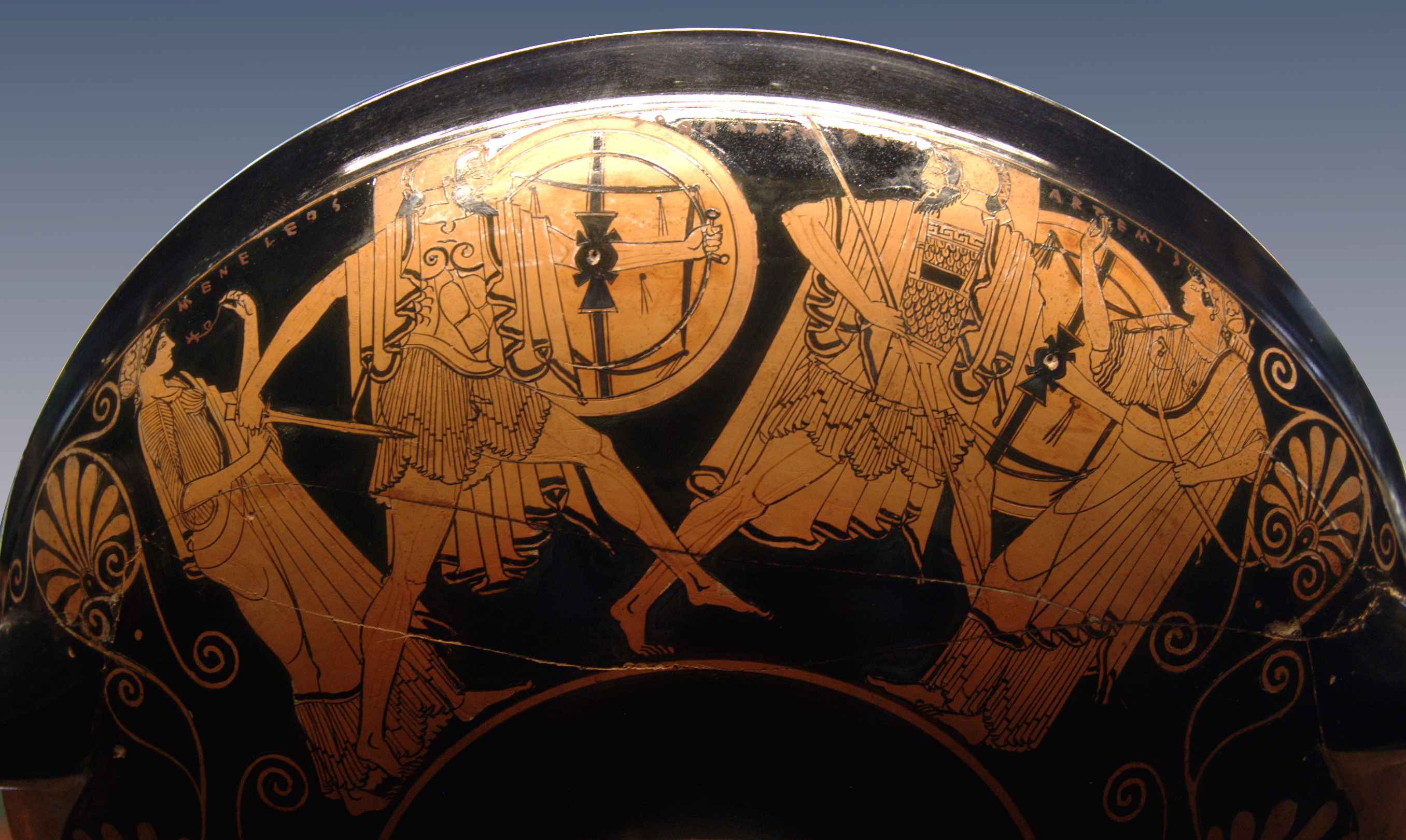 Menelaus (centre-left) pursues Paris (centre-right) as Aphrodite (left) and Artemis (right) watch on. Side A from an Attic red-figure kylix, ca. 490–480 BC. From Capua.